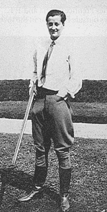 Valentine Ackland (1906-1969) was a poet important in the emergence of modernism in twentieth-century British poetry.